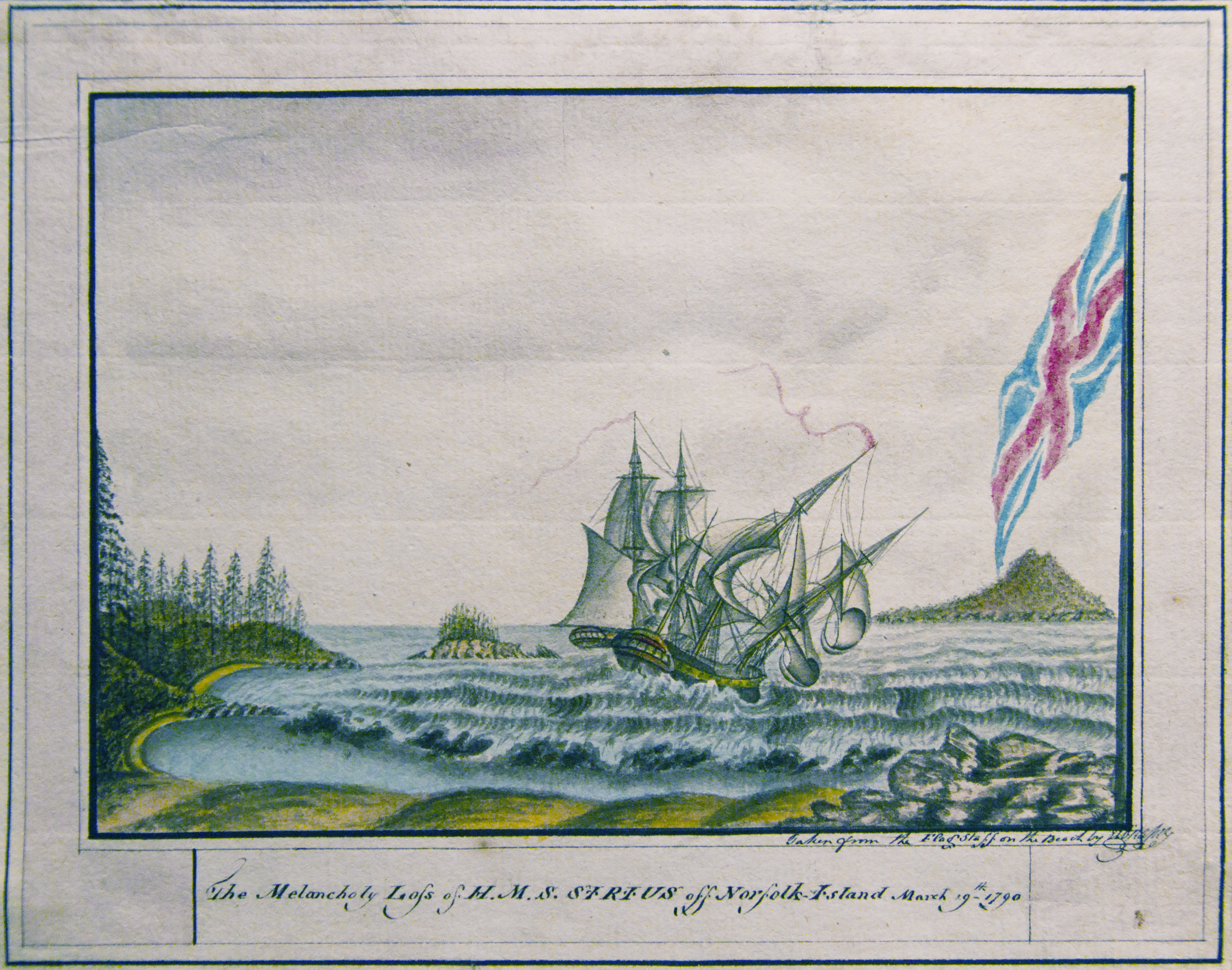 The melancholy loss of HMS Sirius off Norfolk Island March 19th 1790 - George Raper, National Library of Australia, Canberra, Australia